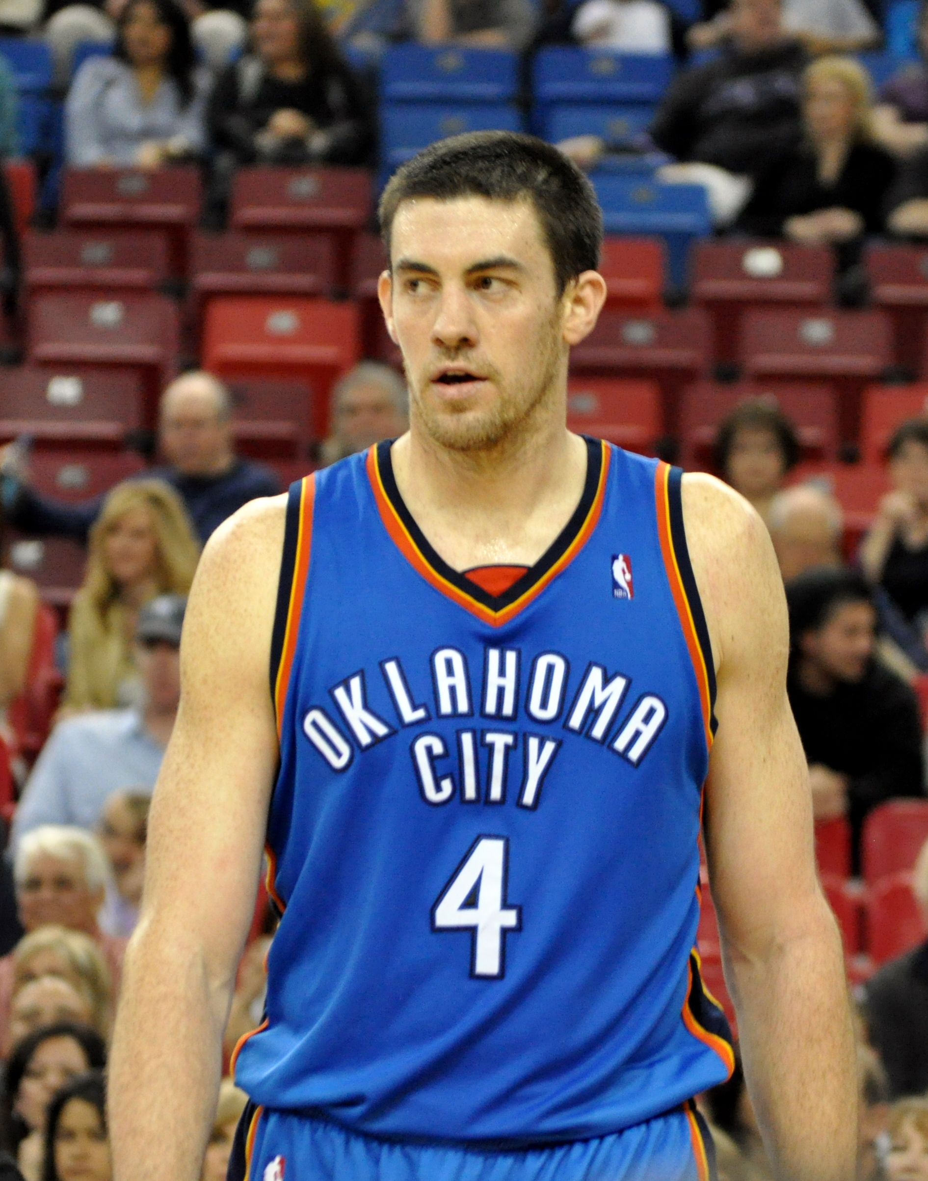 Nick Collison of the Oklahoma City Thunders at ARCO areana.